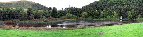 Small lake just north of Hethpool house on entrance to College Valley,Northumberland